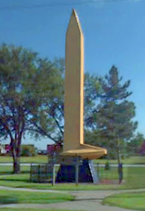 The Golden Spike Monument located adjacent to the Union Pacific main yard at Council Bluffs, IA. Dedicated April 28, 1939.